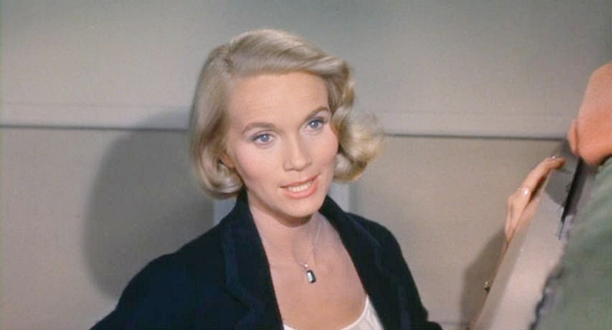 Eva Marie Saint talking in the theatrical trailer of the 1959 film North by Northwest directed by Alfred Hitchcock.